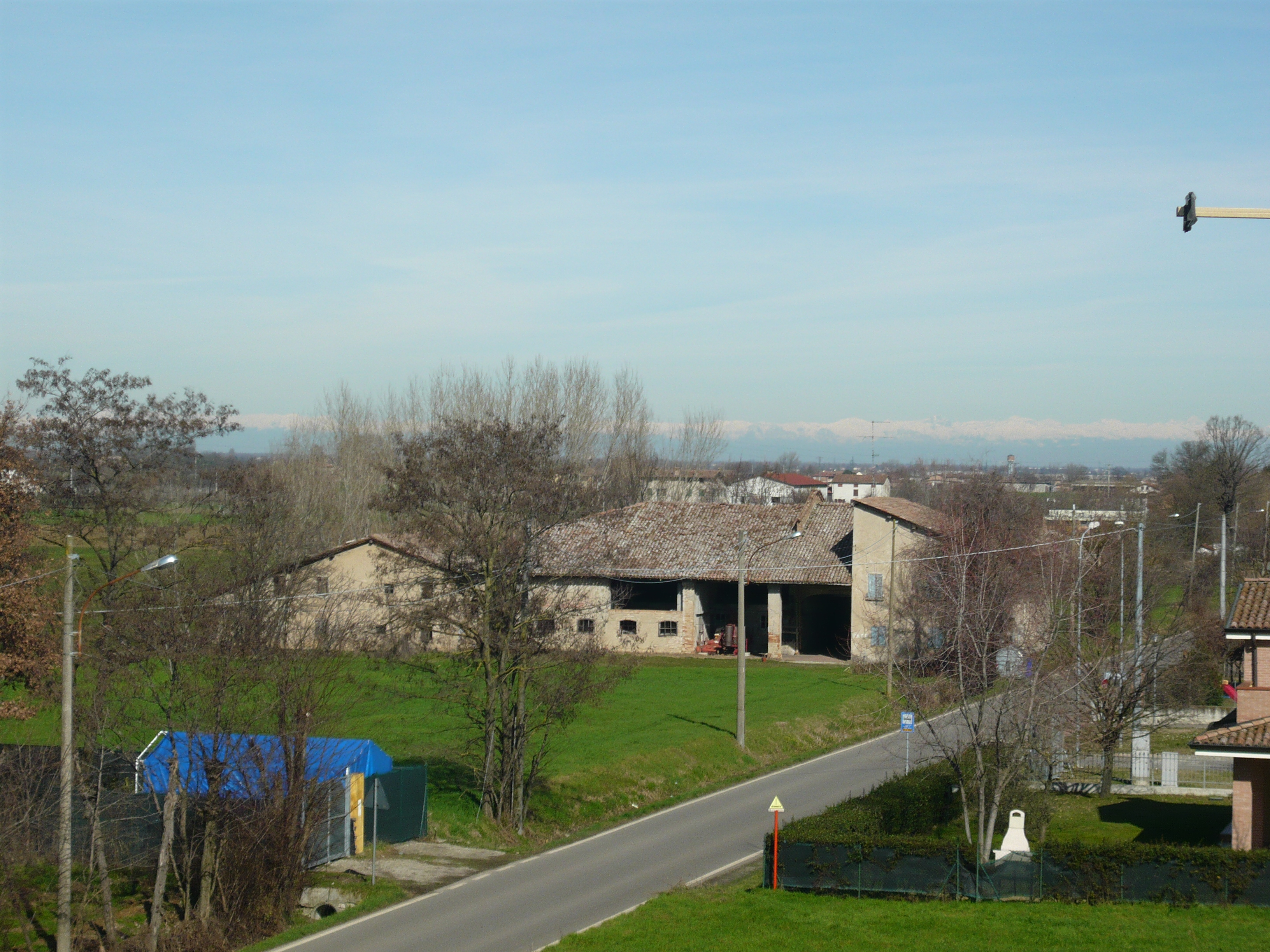 The view of the Alps from Aiola